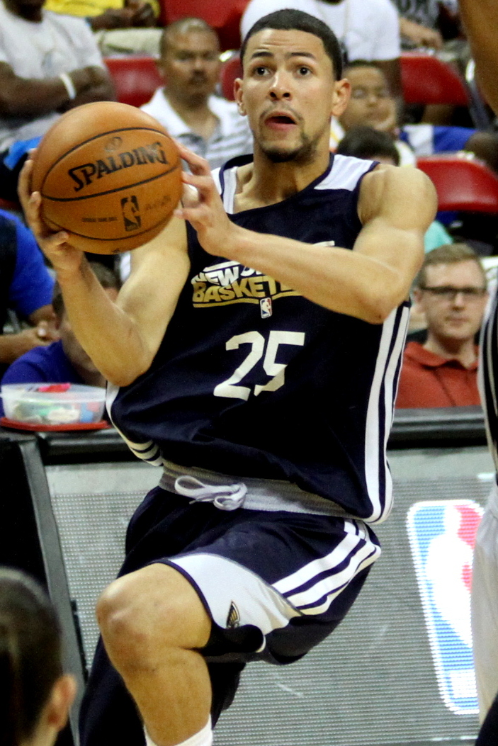 Austin Rivers of the New Orleans Pelicans.